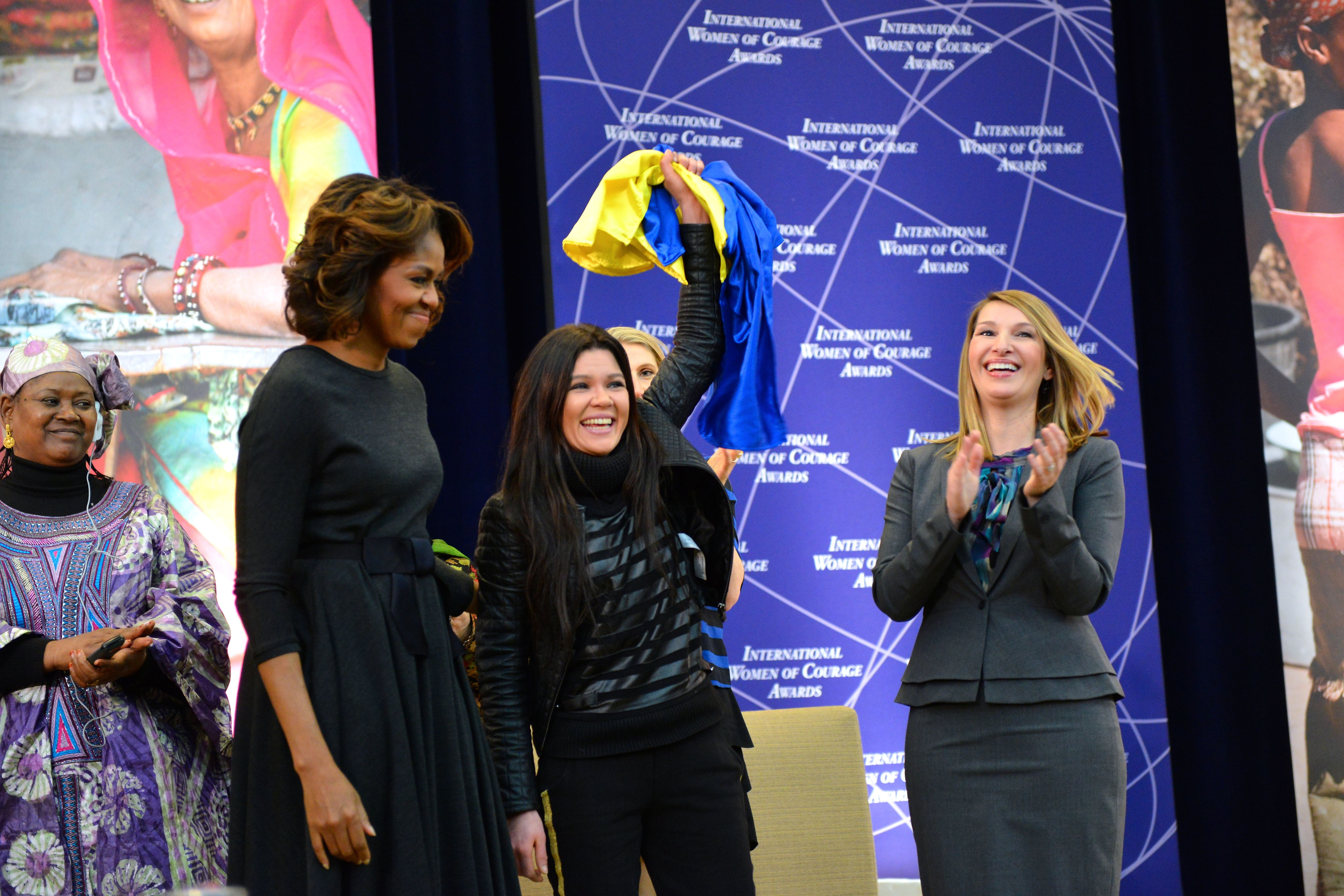 First Lady Michelle Obama and Deputy Secretary Heather Higginbottom pose for a photo with 2014 Secretary of State’s International Women of Courage Award Winner Ruslana Lyzhychko, a EuroMaidan volunteer and People’s Artist of Ukraine, at the U.S. Department of State in Washington, D.C., on March 4, 2014. [State Department photo/ Public Domain]